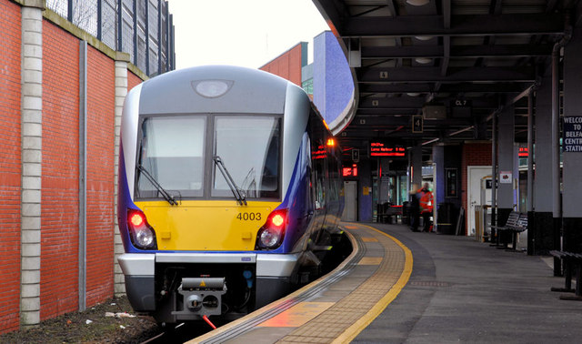 C4K train, Belfast (1)